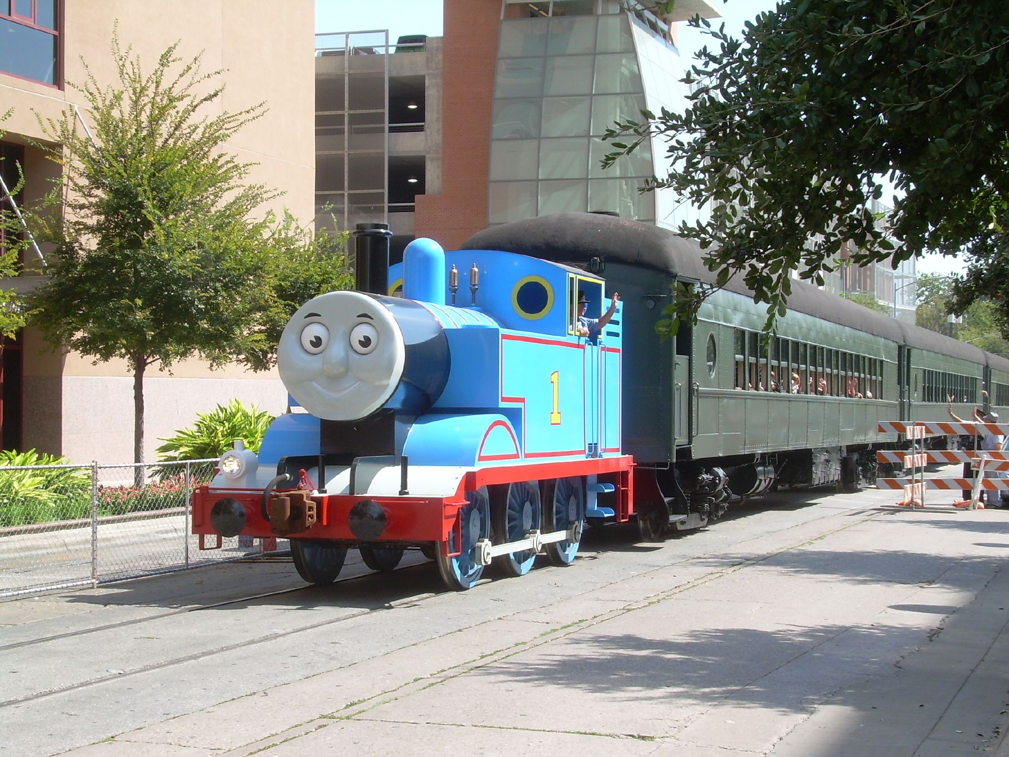 Innotech shared the Convention Center with a bazillion preschoolers who wanted to ride Thomas the Tank Engine. Ya don't see this in downtown Austin every day.